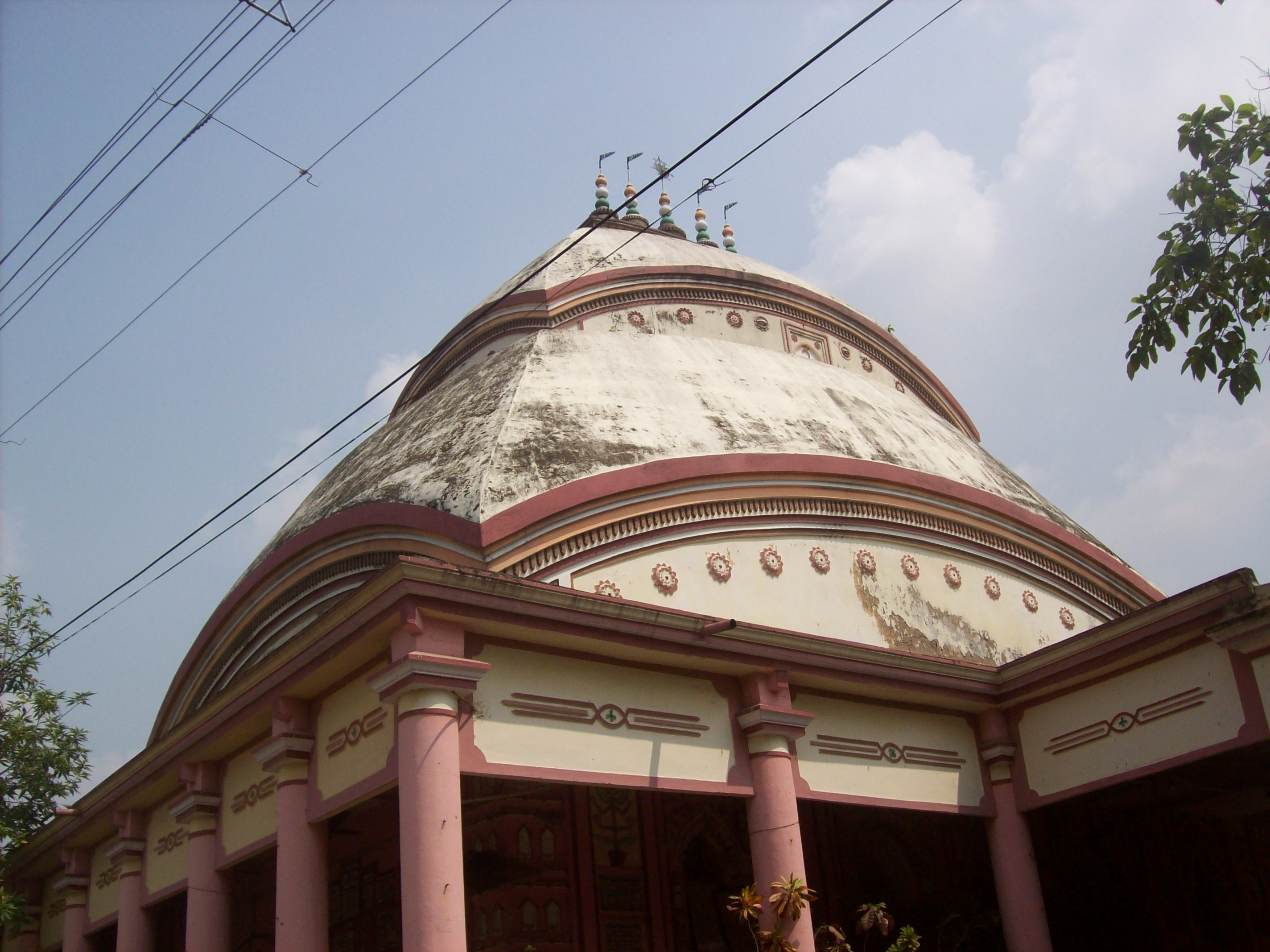 The Radhaballav temple.